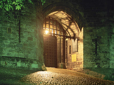 Entrance to HM Prison, Lancaster Castle